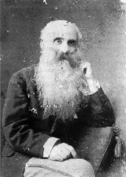 Greek composer Iosif Liveralis / Ιωσήφ Λιβεράλης (1820-1899)